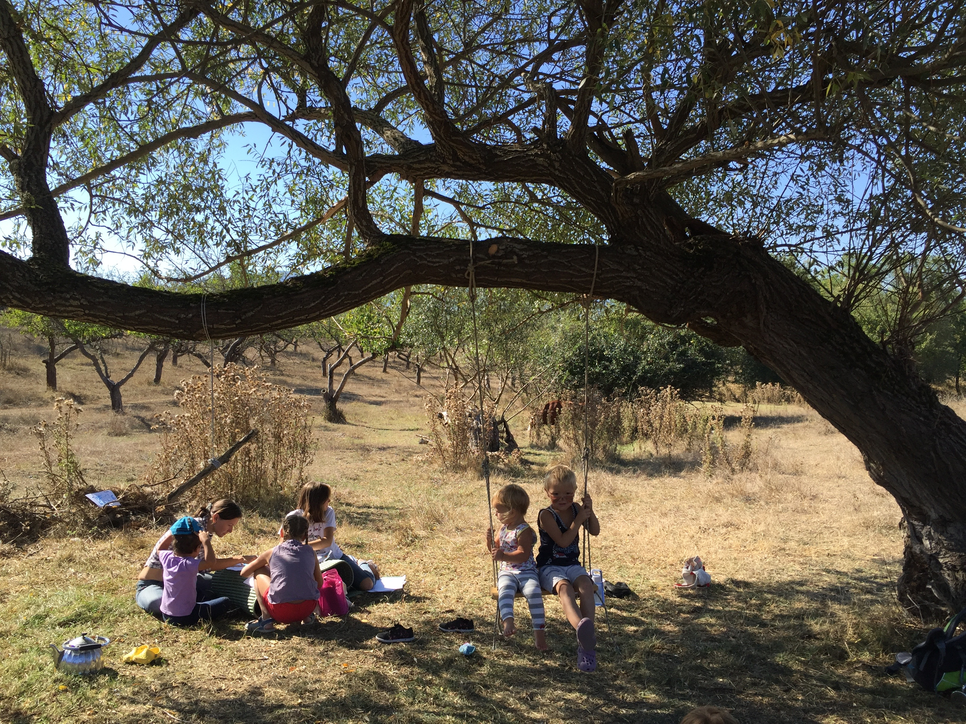 Selfmade swings and open air art lessons. Children having fun in the open air kindergarten Solnechnosadik, in Crimea